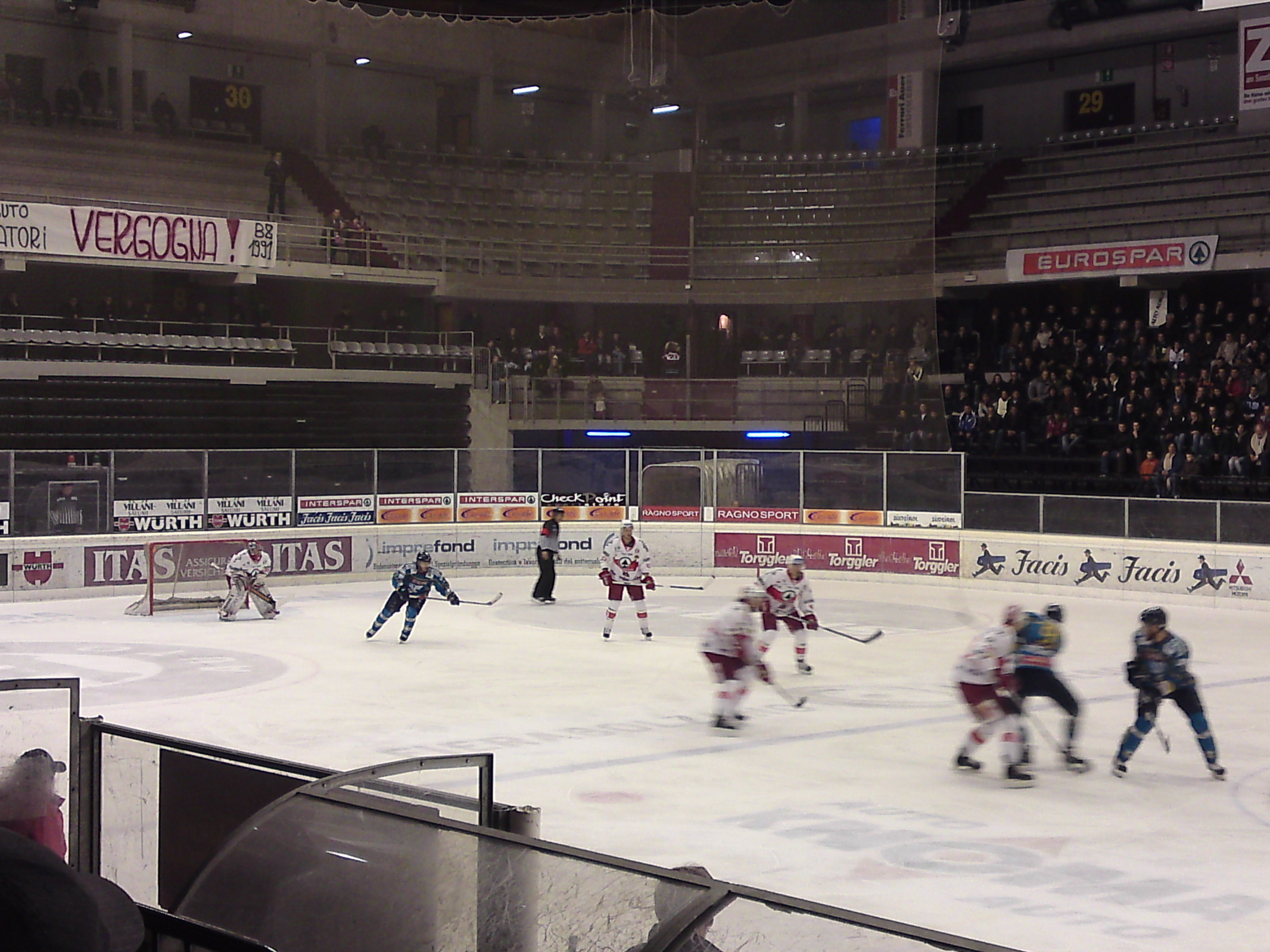 HC Bolzano vs. SG Pontebba, Serie A 2009-2010, play-off, quarterfinal, game 5.